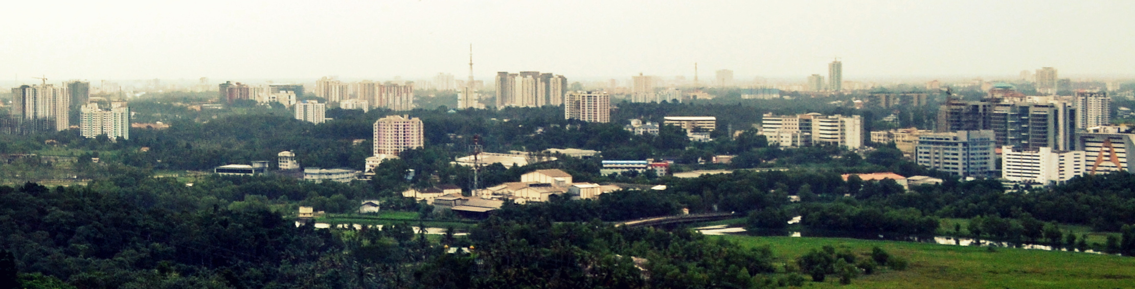 Picture capturing kakkanad skyline. Infopark, Rajagiri college and numerous apartments seen